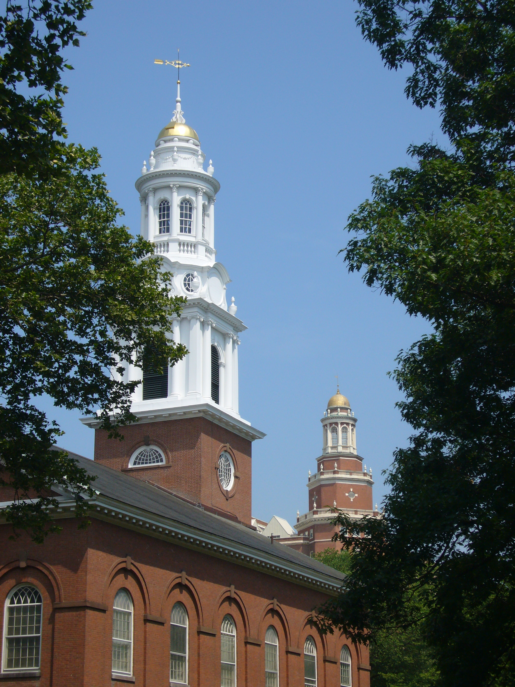 The North Church on the New Haven Green in New Haven, CT (US). Also shows the Union and New Haven Trust Building. Photo taken by User:Staib on 16 June 2007.